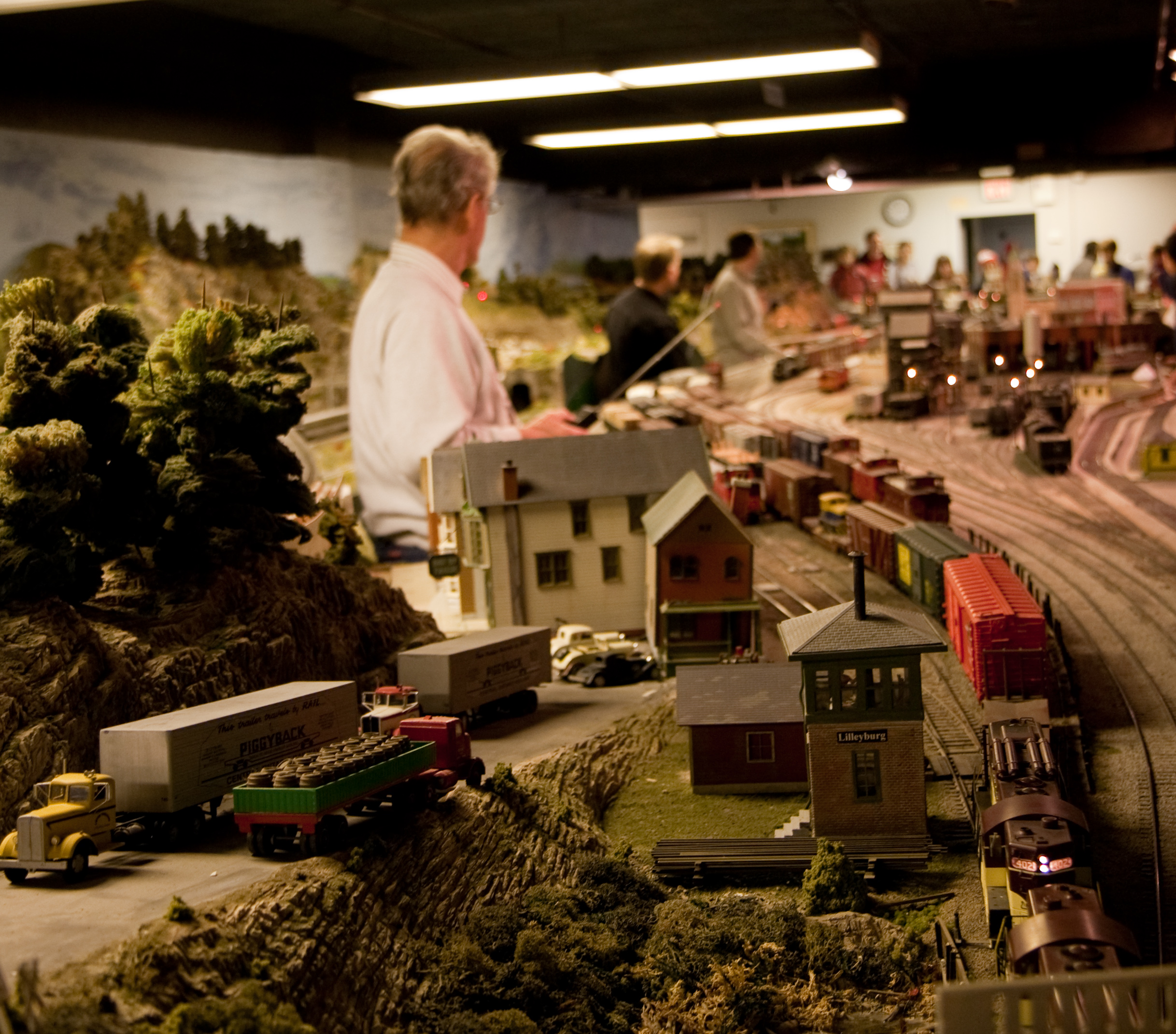 Model Railroad Club of Toronto